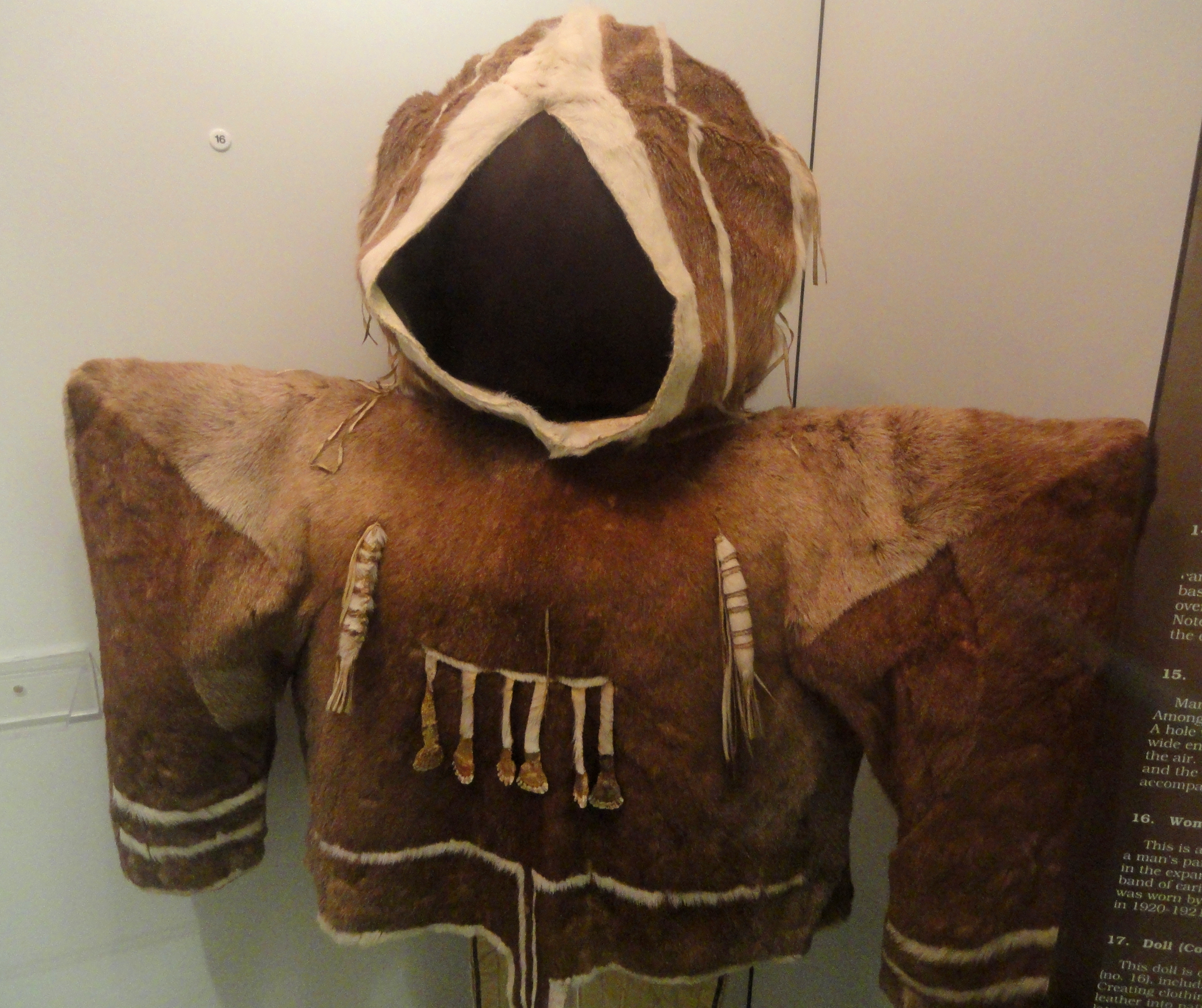 Parka (woman's), Copper Eskimo, collected in 1920-1921. Exhibit from the Native American Collection, Peabody Museum, Harvard University, Cambridge, Massachusetts, USA. Photography was permitted without restriction; exhibit is old enough so that it is in the public domain.